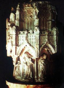 Remnant 15th.c. gothic sculpted stone from Syon Monastery, Isleworth. Presented to the Convent of Syon, Devon, by the Duke of Northumberland, within whose property at Syon House it was found.